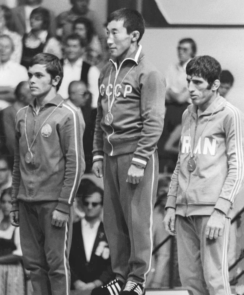 Freestyle Wrestling at the 1972 Summer Olympics 48 kg podium